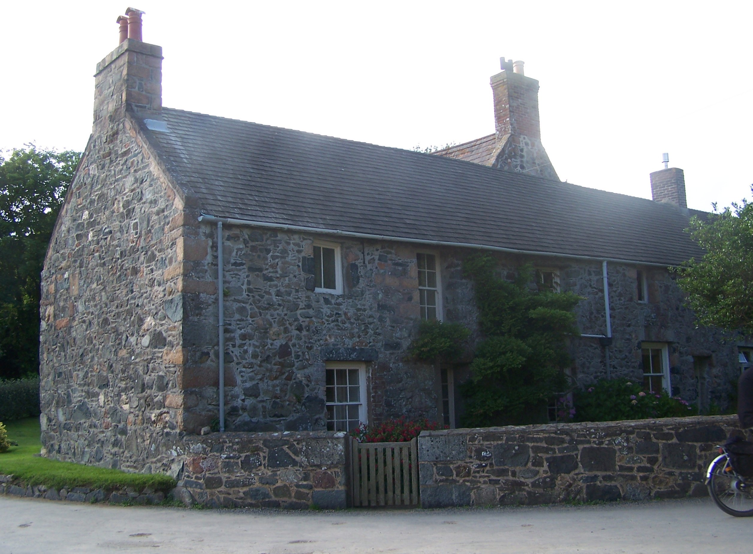 A row of cottages belonging to Le Manoir, Sark, containing the first home of the Seigneurs of Sark and the former church and school rooms. Building started in the 16th century; the main building (see this image), visble on the left, is built right angled to the cottages in the west.